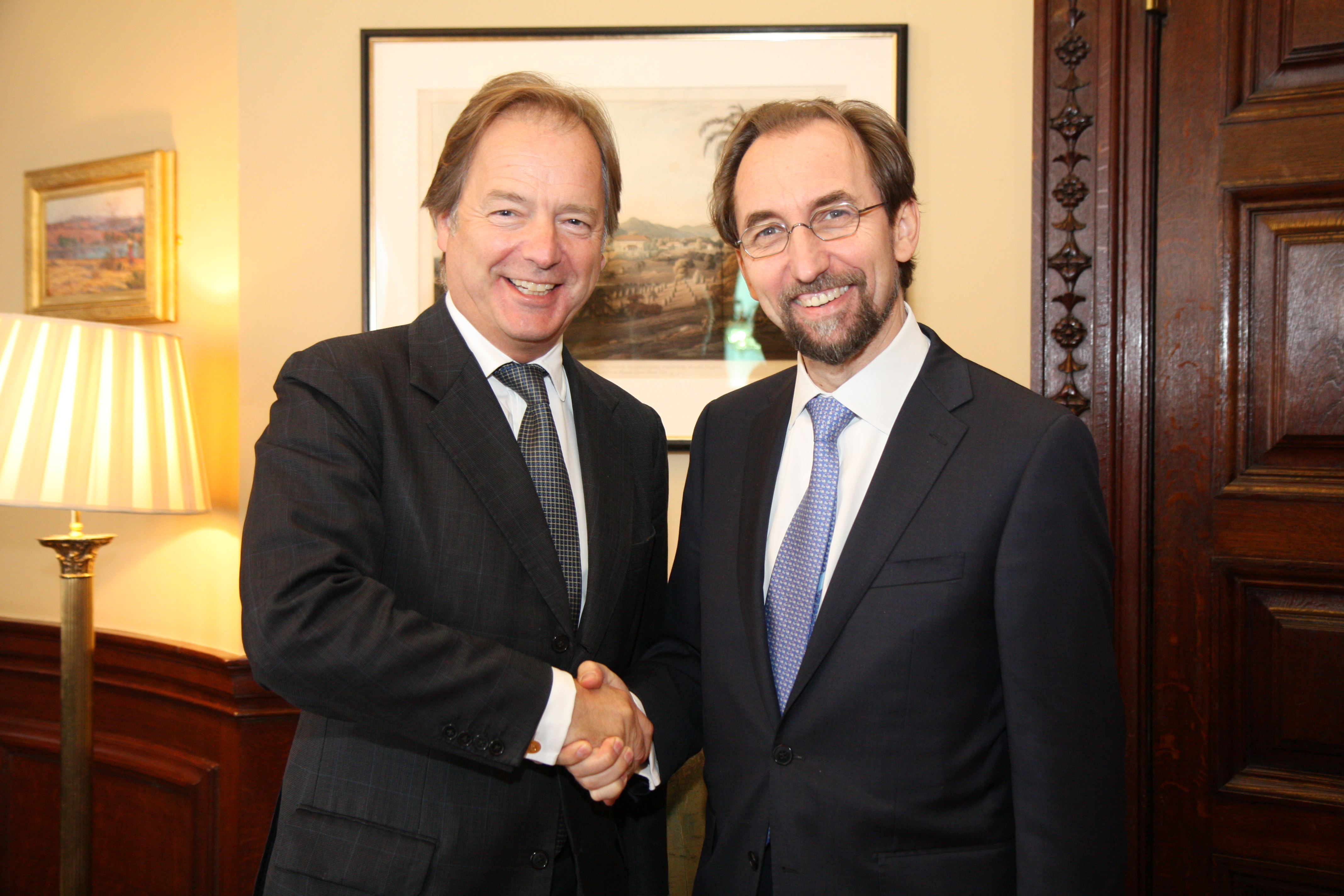 Foreign Office Minister Hugo Swire meeting Zeid Ra’ad Al Hussein, United Nations High Commissioner for Human Rights in London, 12 October 2015.